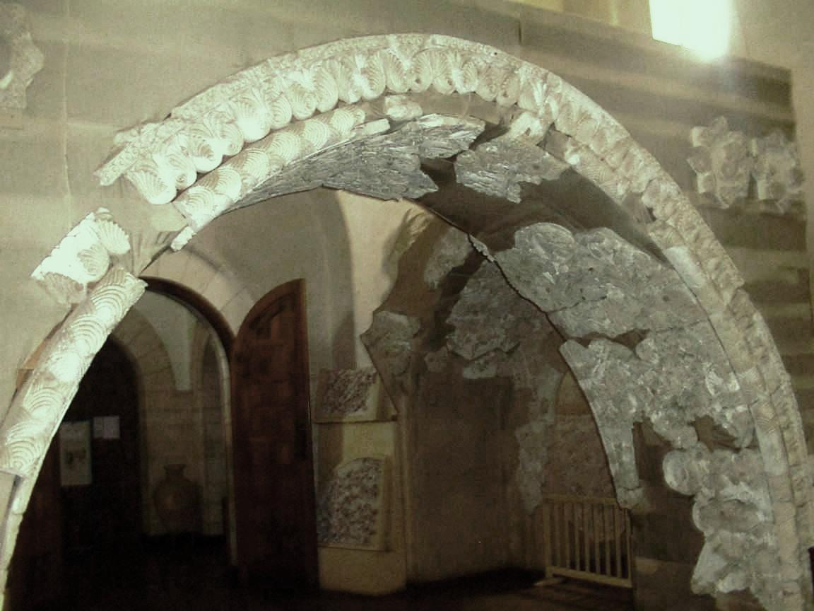 Rockefeller_Museum_Ivory1